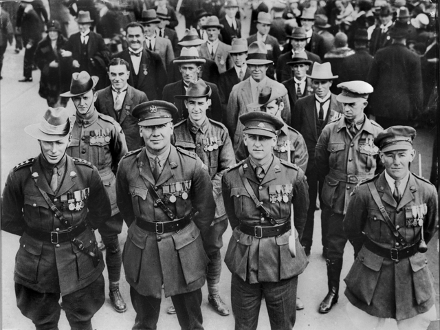 AWM caption: Melbourne, VIC, 1927-04-25. VC winners and recipients of other high awards for bravery line up on parade near the Exhibition Building (not in view) at the Anzac day march. Left to right: front row: Captain James Ernest Newland Lieutenant (Lt) George Mawby Ingram MM Lt John Patrick Hamilton Lt William Ruthven Second row: Corporal (Cpl) Walter Ernest Brown Private (Pte) George Cartwright Pte William Matthew Currey Sergeant (Sgt) George Julian Howell Third row: Cpl Arthur Percy Sullivan Sgt Albert David Lowerson Lt Edgar Thomas Towner unknown. Fourth row: Pte Thomas James Bede Kenny obscured; Stanley Gibbs, a winner of the Albert Medal Sgt Stanley Robert McDougall Fifth row: unknown; Sgt John James Dwyer rest unknown. With the exception of Gibbs, all of the men named were winners of the Victoria Cross.